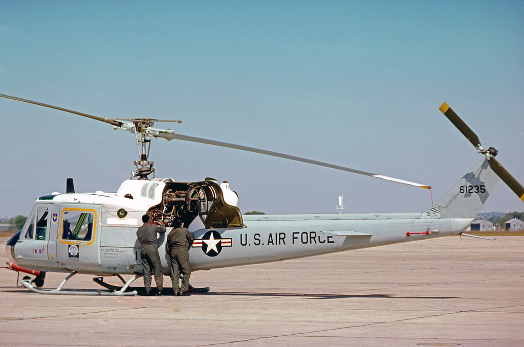 Bell TH-1F Iroquois 66-1235 training version of the UH-1F at Randolph AFB Texas in 1975